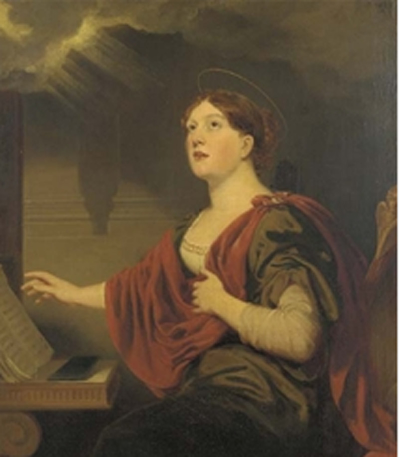 Mrs Robert Arkwright, wife of the owner of Sutton Scarsdale Hall painted as Saint Cecilia